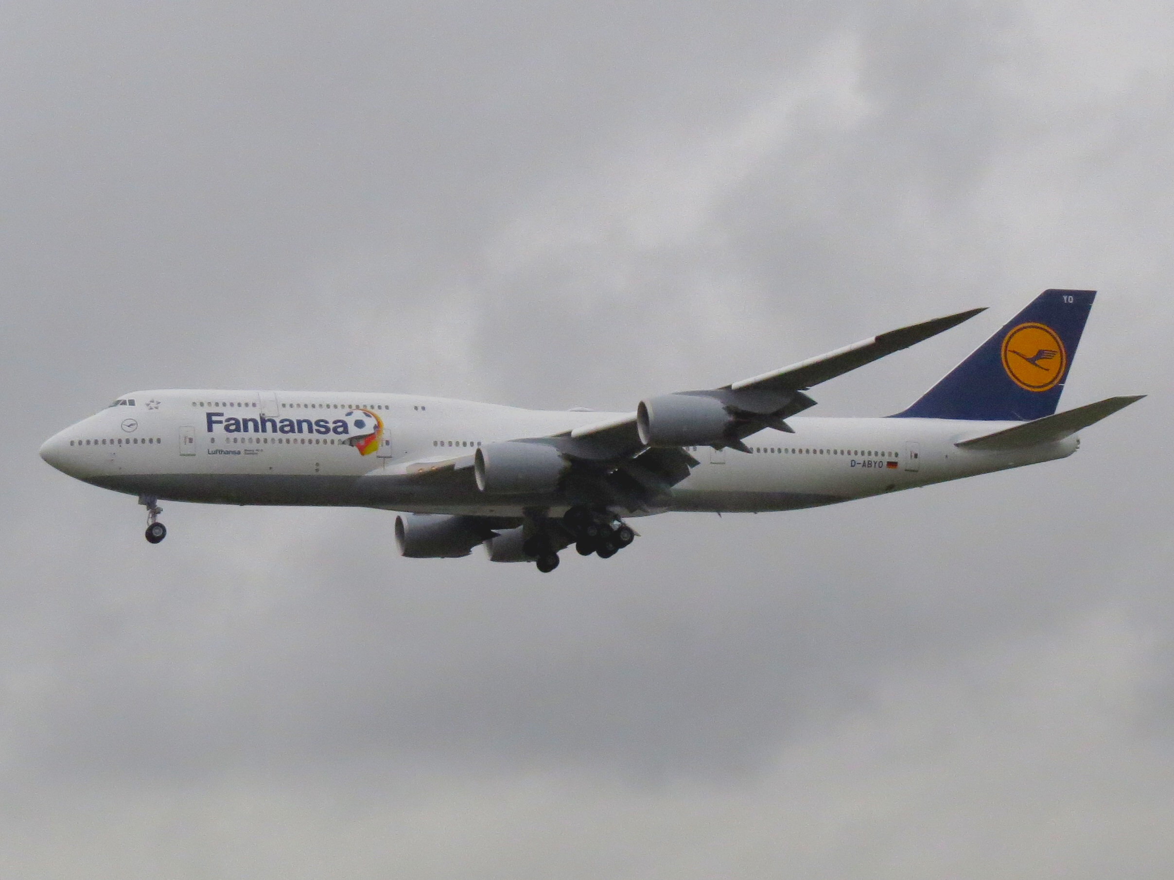 Lufthansa Boeing 747-830 D-ABYO "Saarland" "Fanhansa" 75